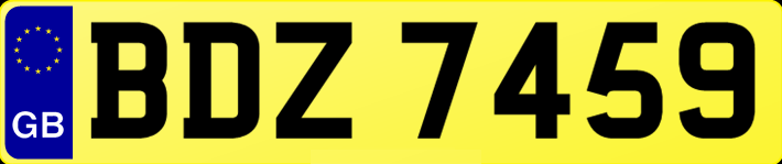 British_vehicle_registration_plate Northern Ireland